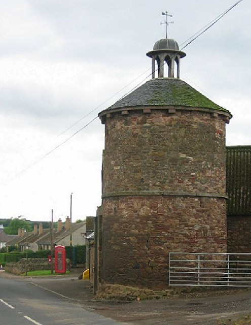 Doocot, Bolton, East Lothian.